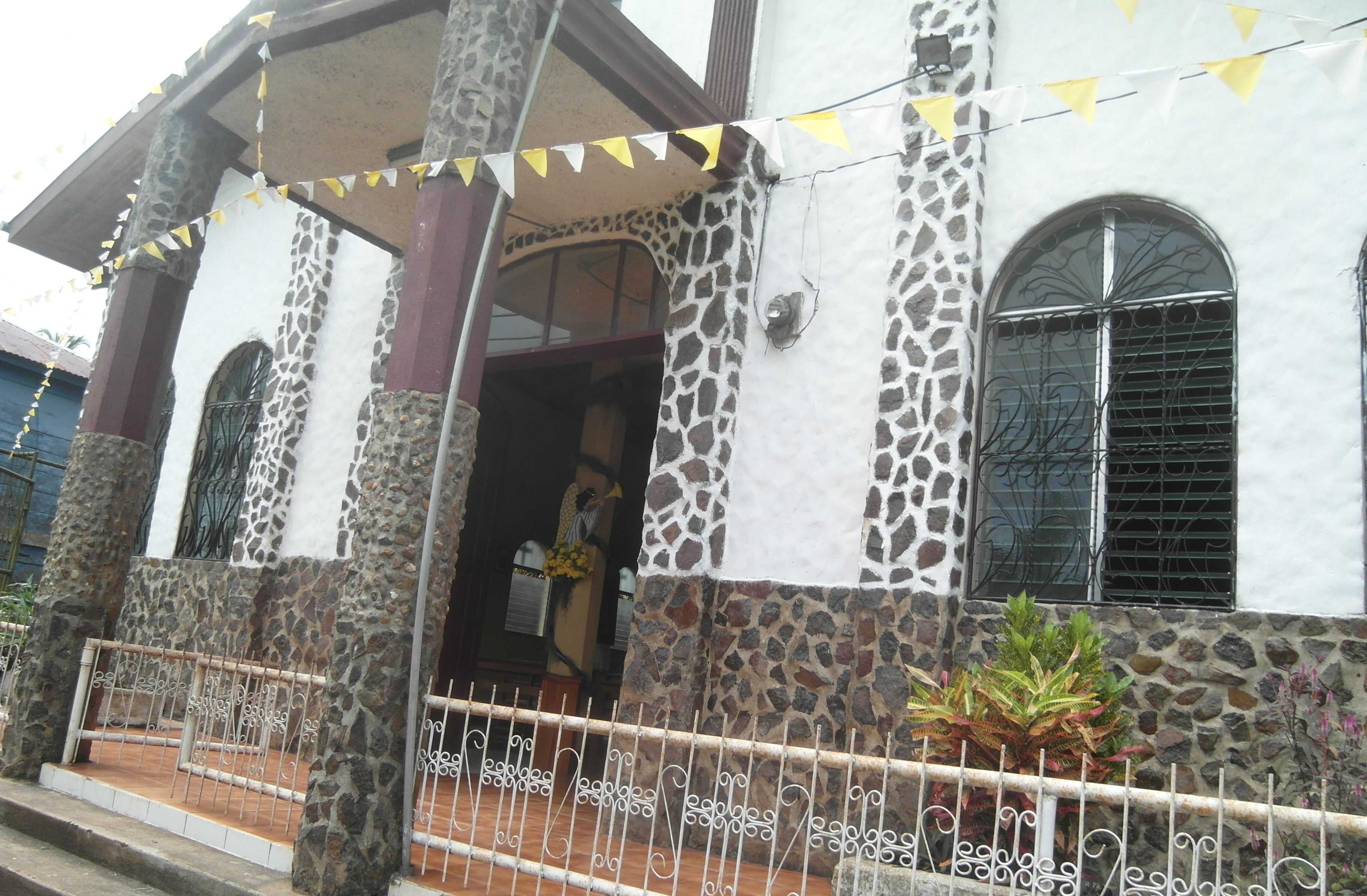 The church of El Castillo